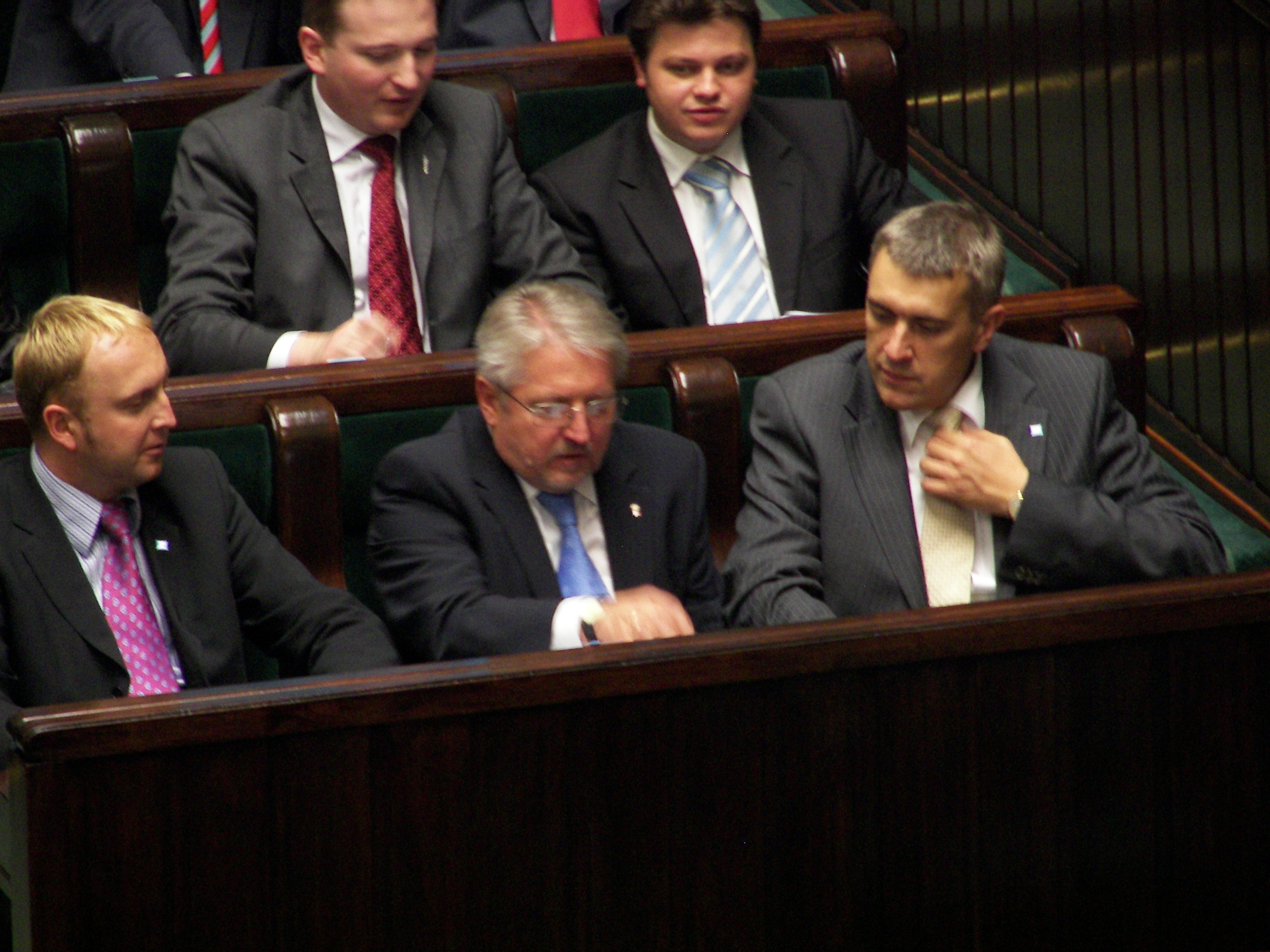 Poland's parliament called early elections (Fri Sep 7, 2007)